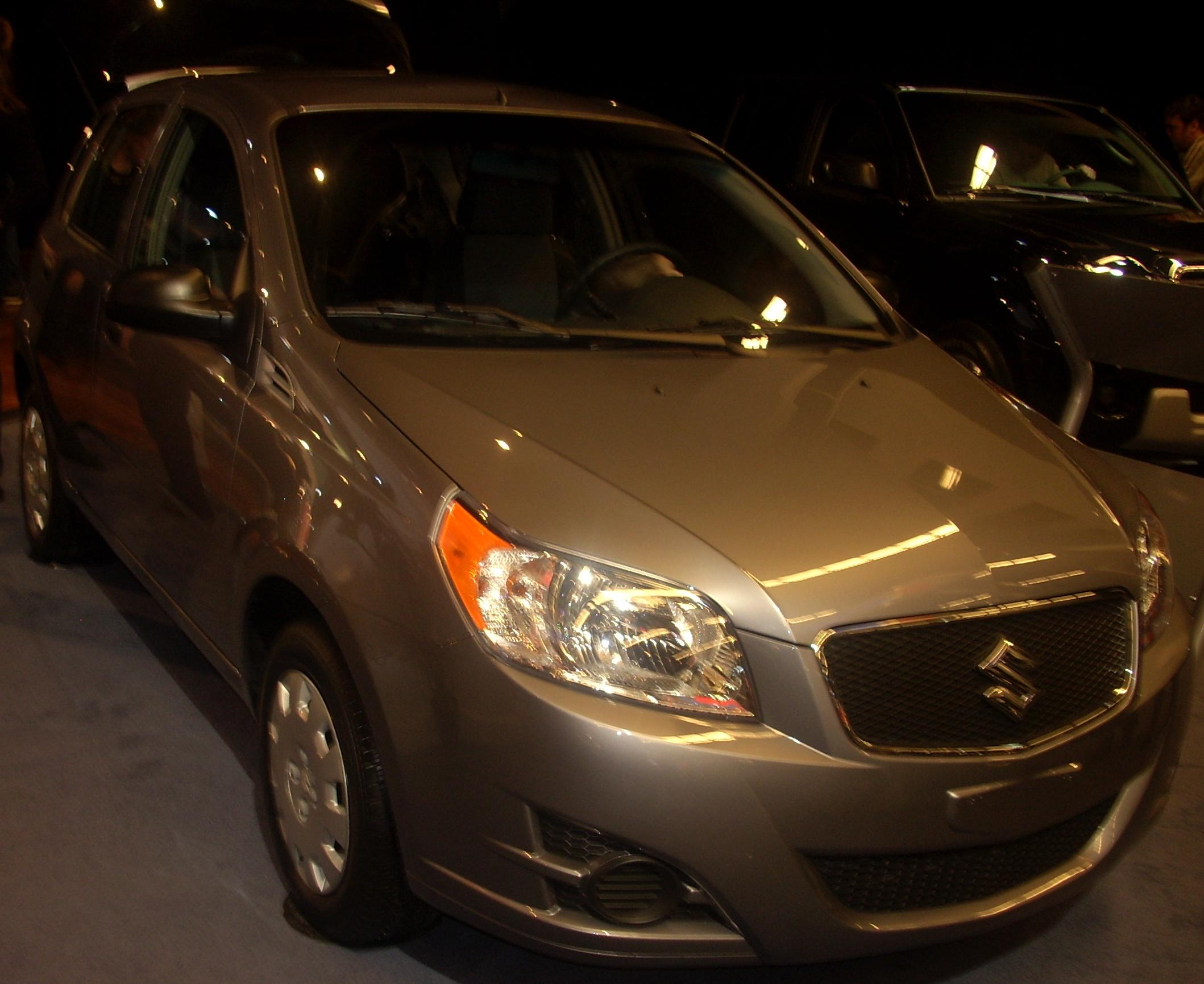 2009 Suzuki Swift+ photographed at the 2009 .